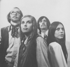 Euphoria photoshoot